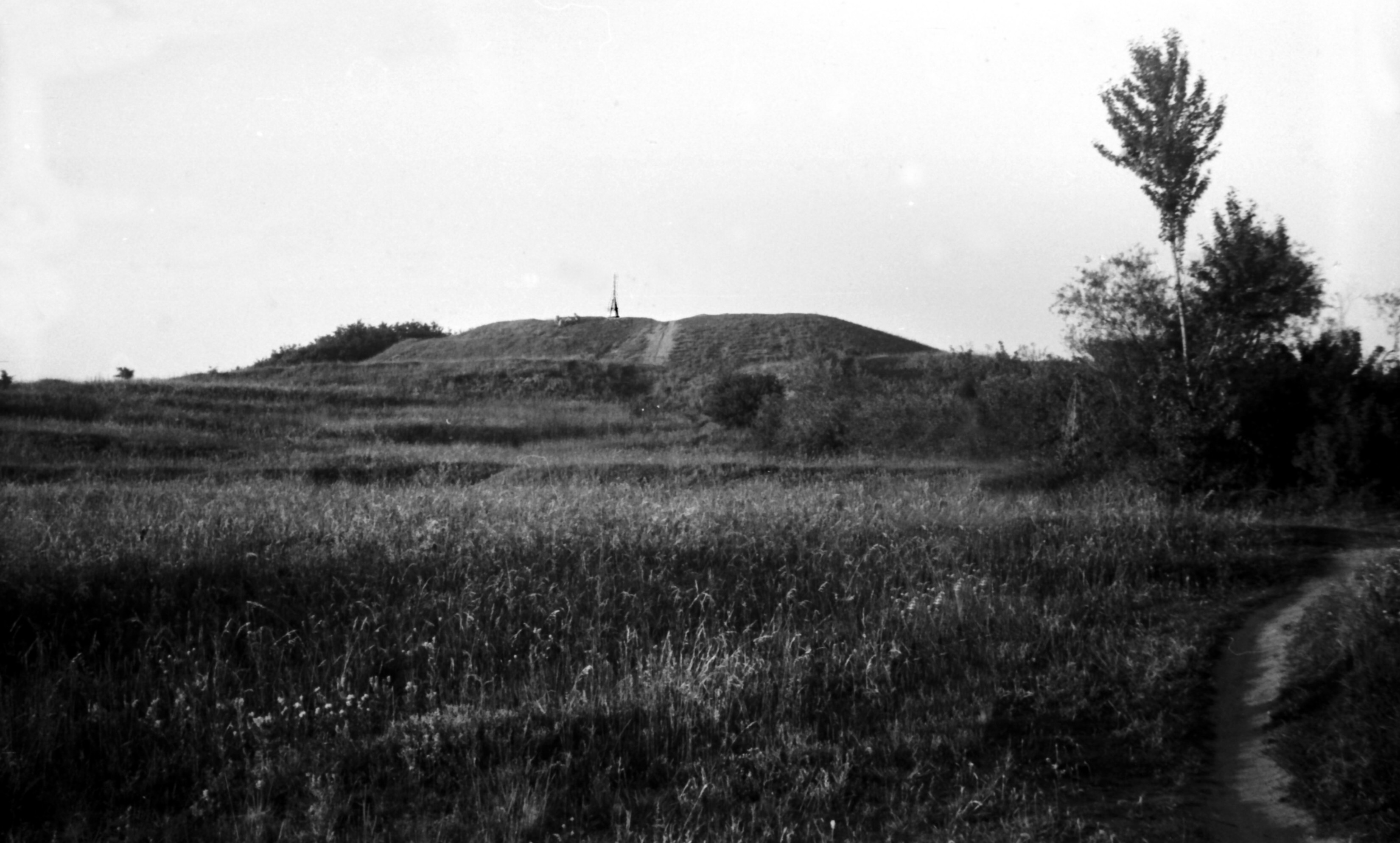 Salduvė hillfort in 1973, Lithuania